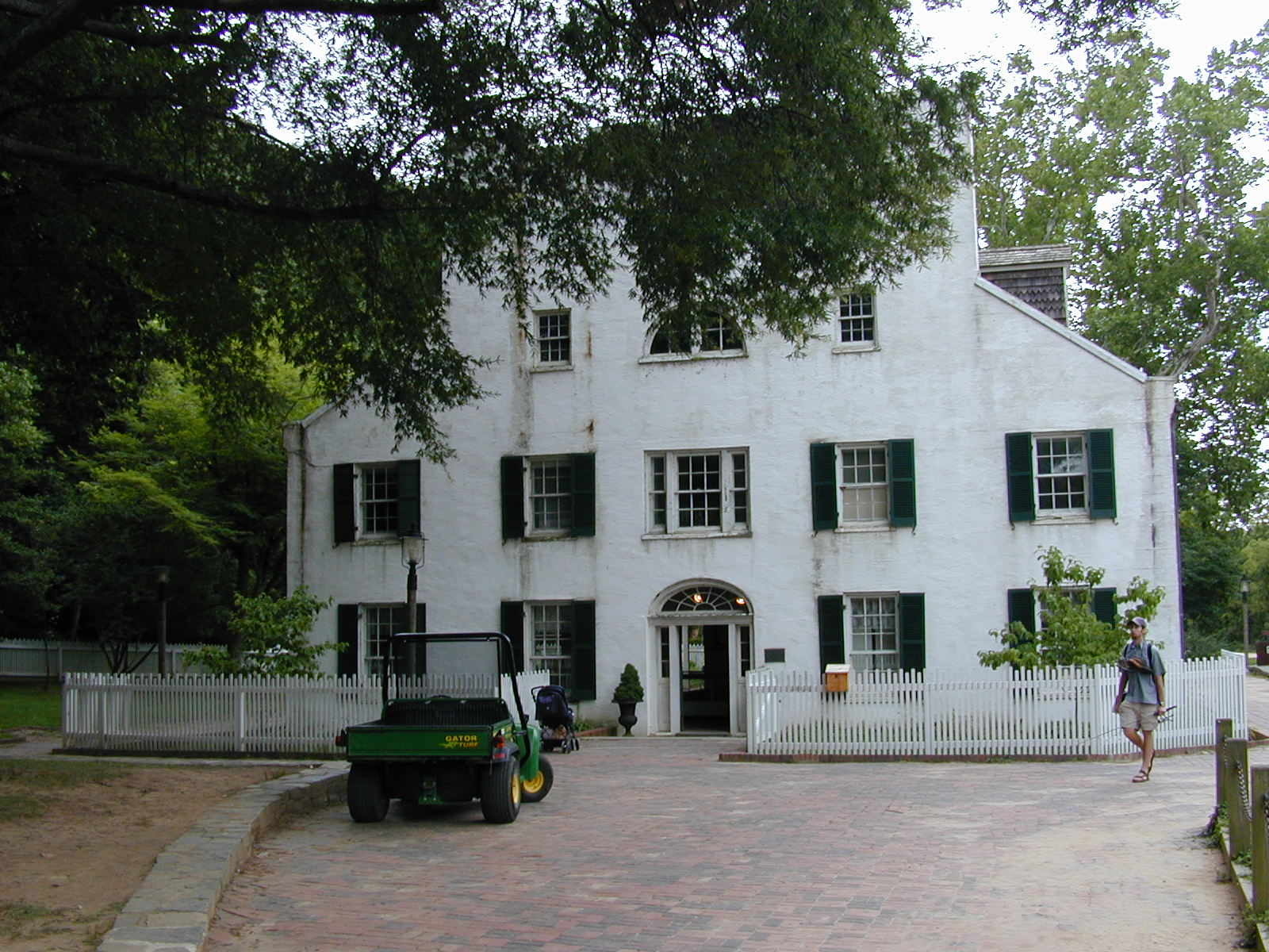 Great Falls Tavern at the C & O Canal, Maryland